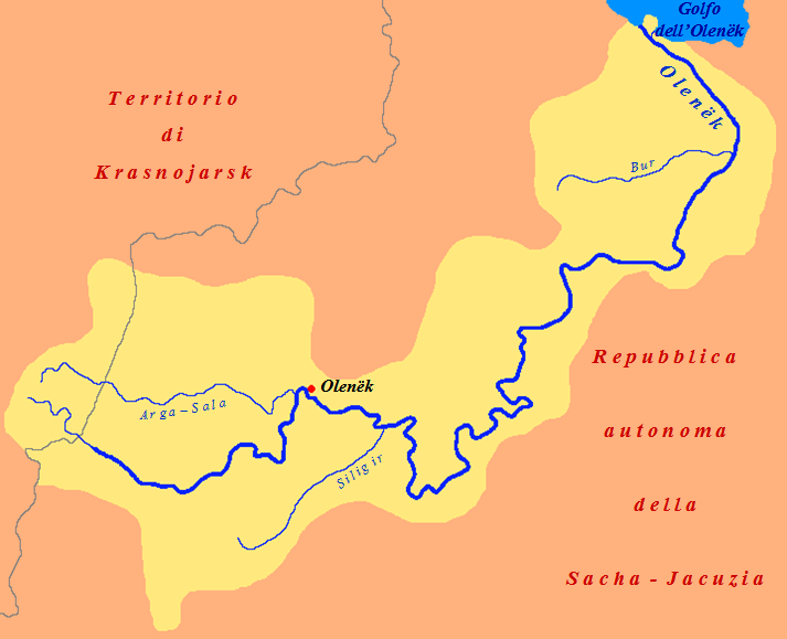 Basin of the river Olenyok, Siberia. Derivative work from this image originally uploaded on Russian Wikipedia by СафроновАВ.